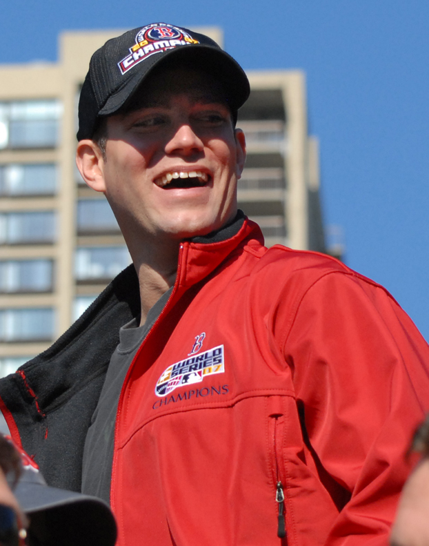 Theo Epstein at the Boston Red Sox 2007 World Series Celebration